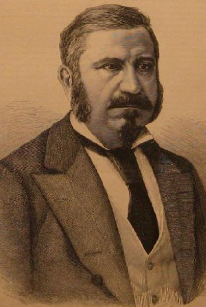 Spanish Politician Manuel Orovio